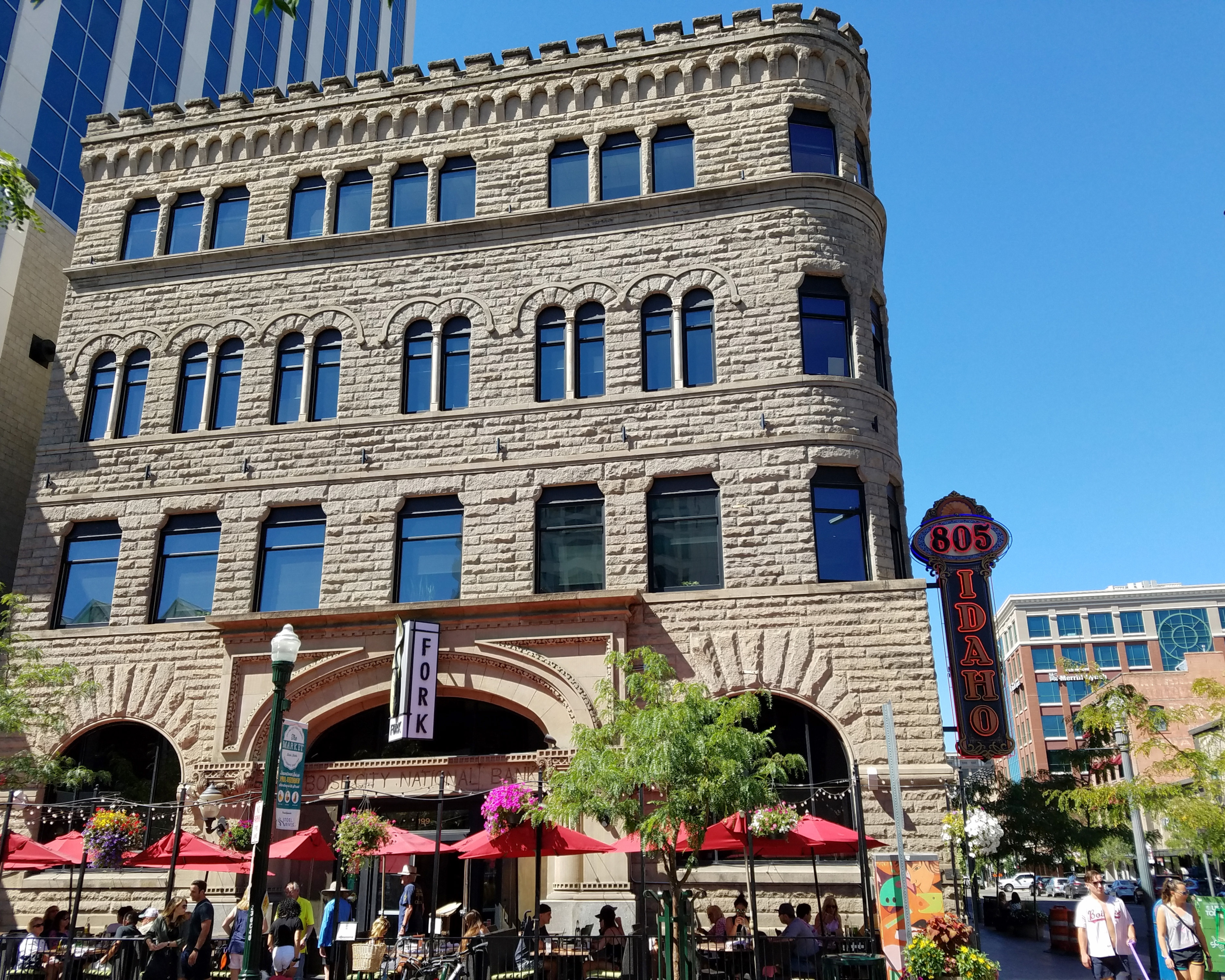 Boise City National Bank (1891) in Boise, Idaho, was designed by James King and remodeled by Tourtellotte & Hummel. The building features sandstone from Table Rock.